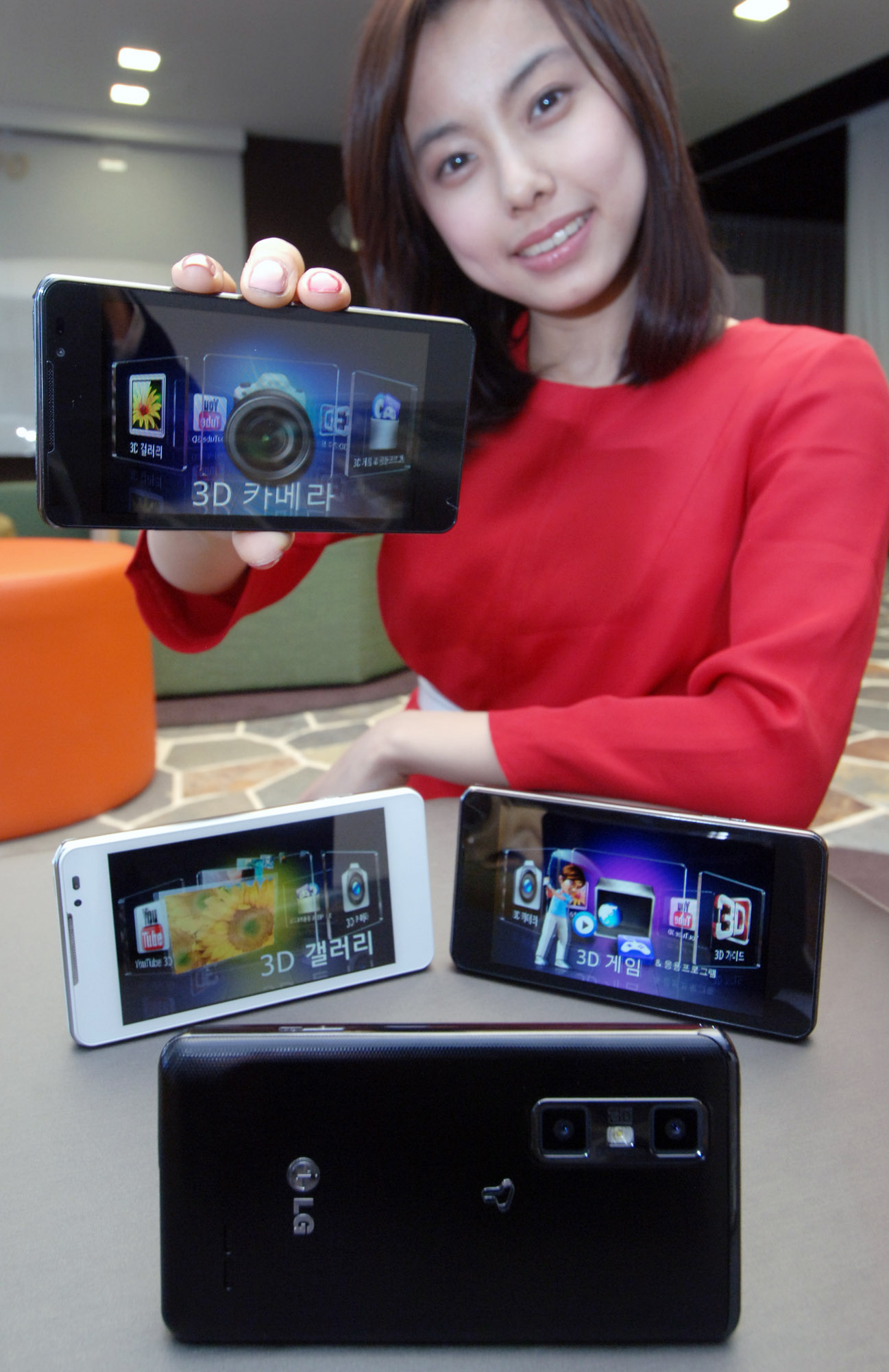 LG Optimus 3D Cube